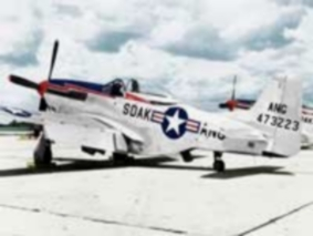 A U.S. Air Force North American F-51D-25-NA Mustang fighter (s/n 44-73223) from the 175th Fighter Squadron, South Dakota Air National Guard.